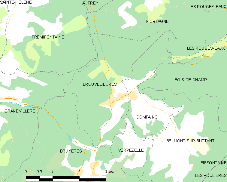 Map of French municipality Brouvelieures